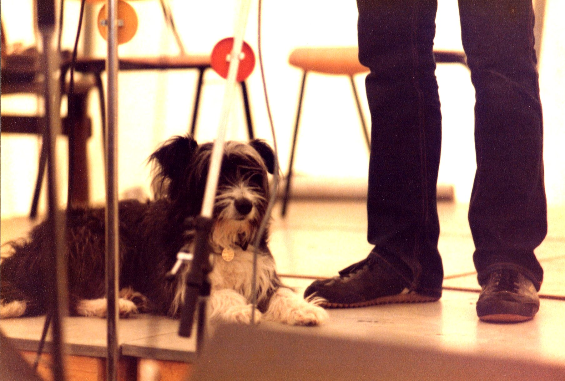 Mrs Ackroyd (dog) with Les Barker, UK folk poet on stage at the 1980 Towersey Festival (Tony Rees photograph)